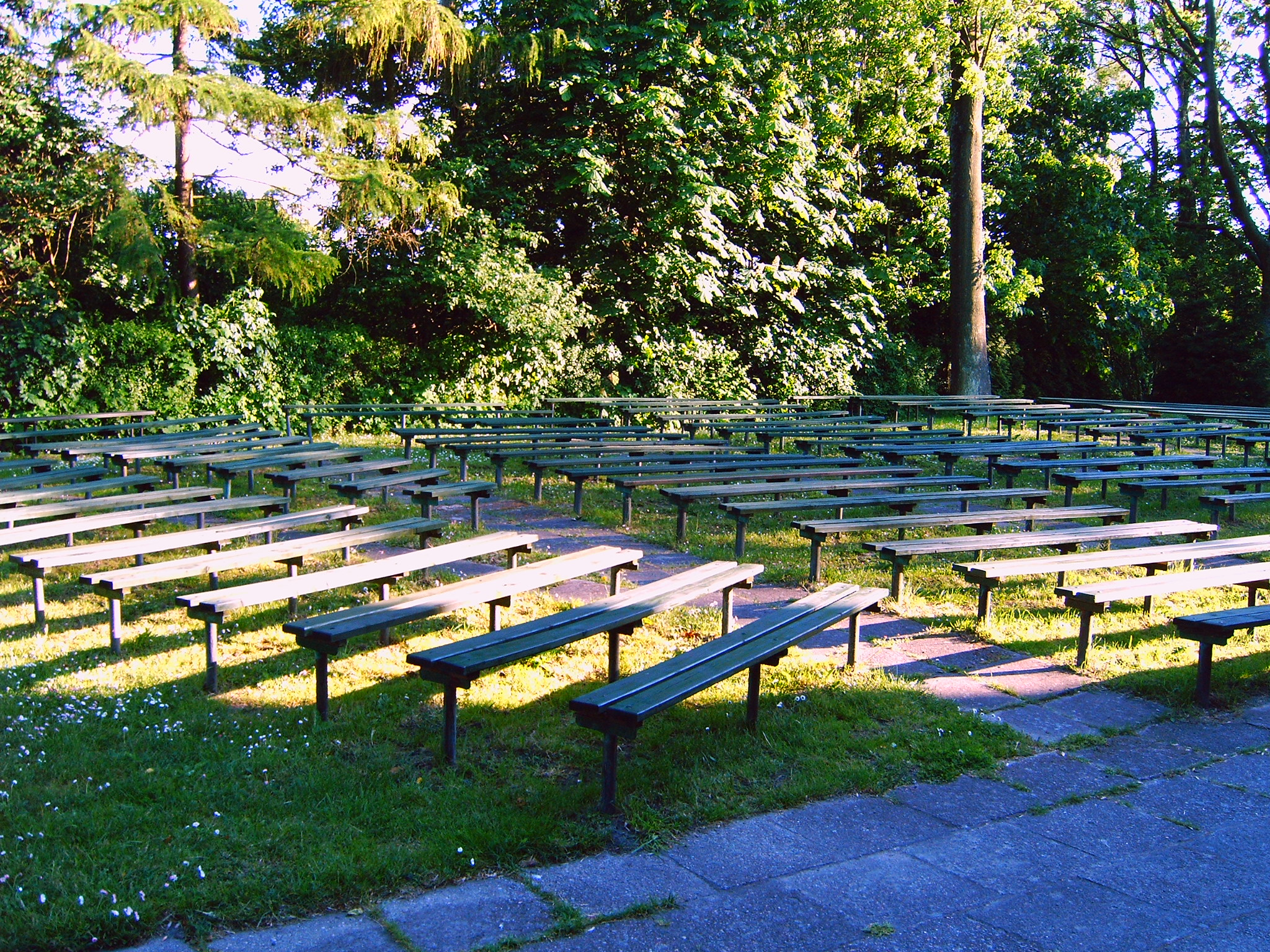 Poland, Mielno, Church of Transfiguration of Jesus, near church